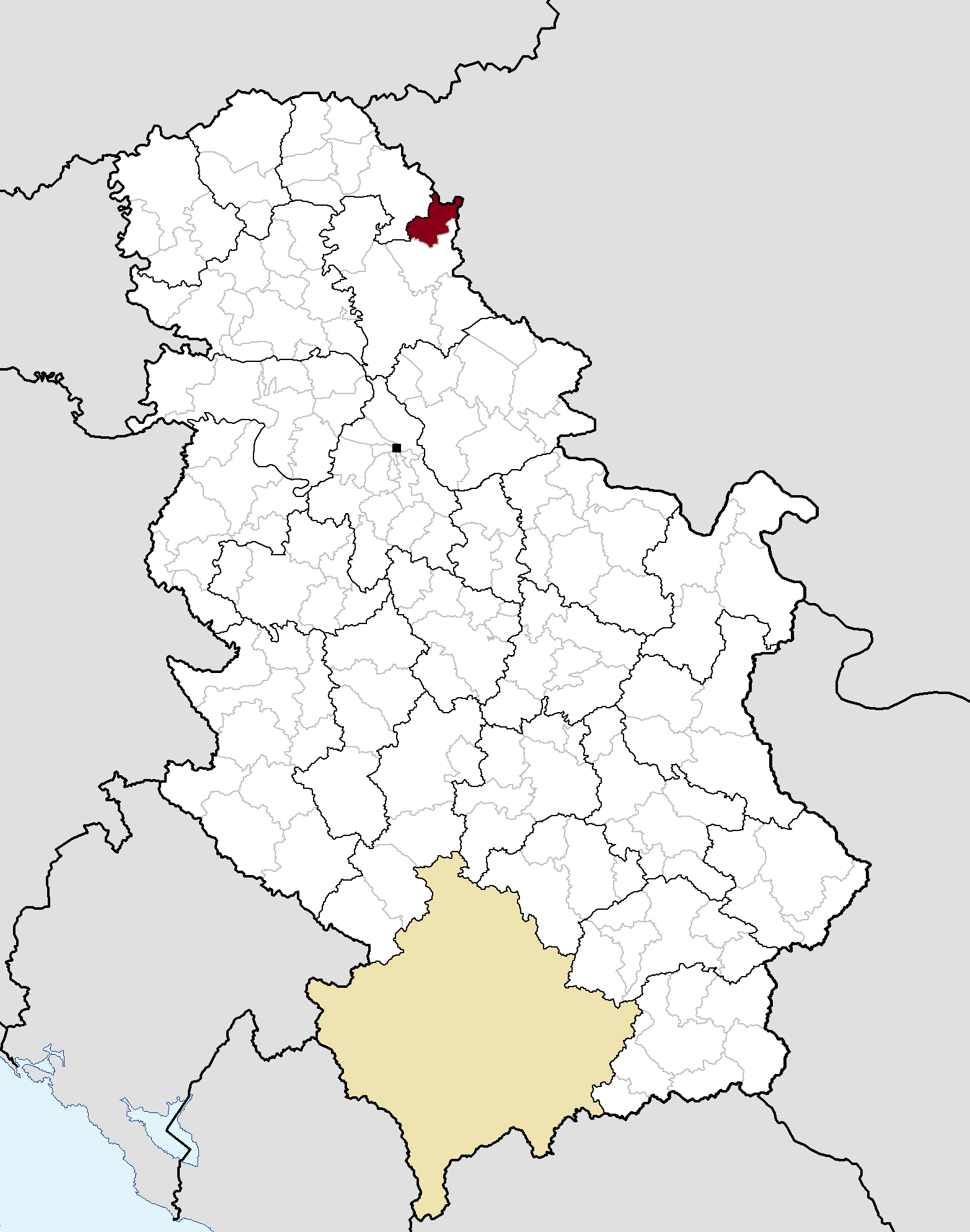 Municipal location in Serbia